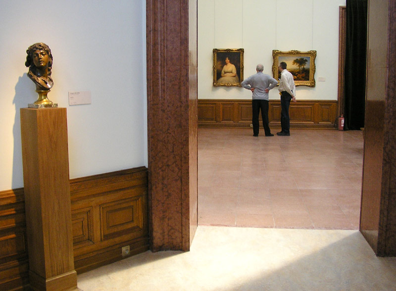 The Palace of Arts, Budapest